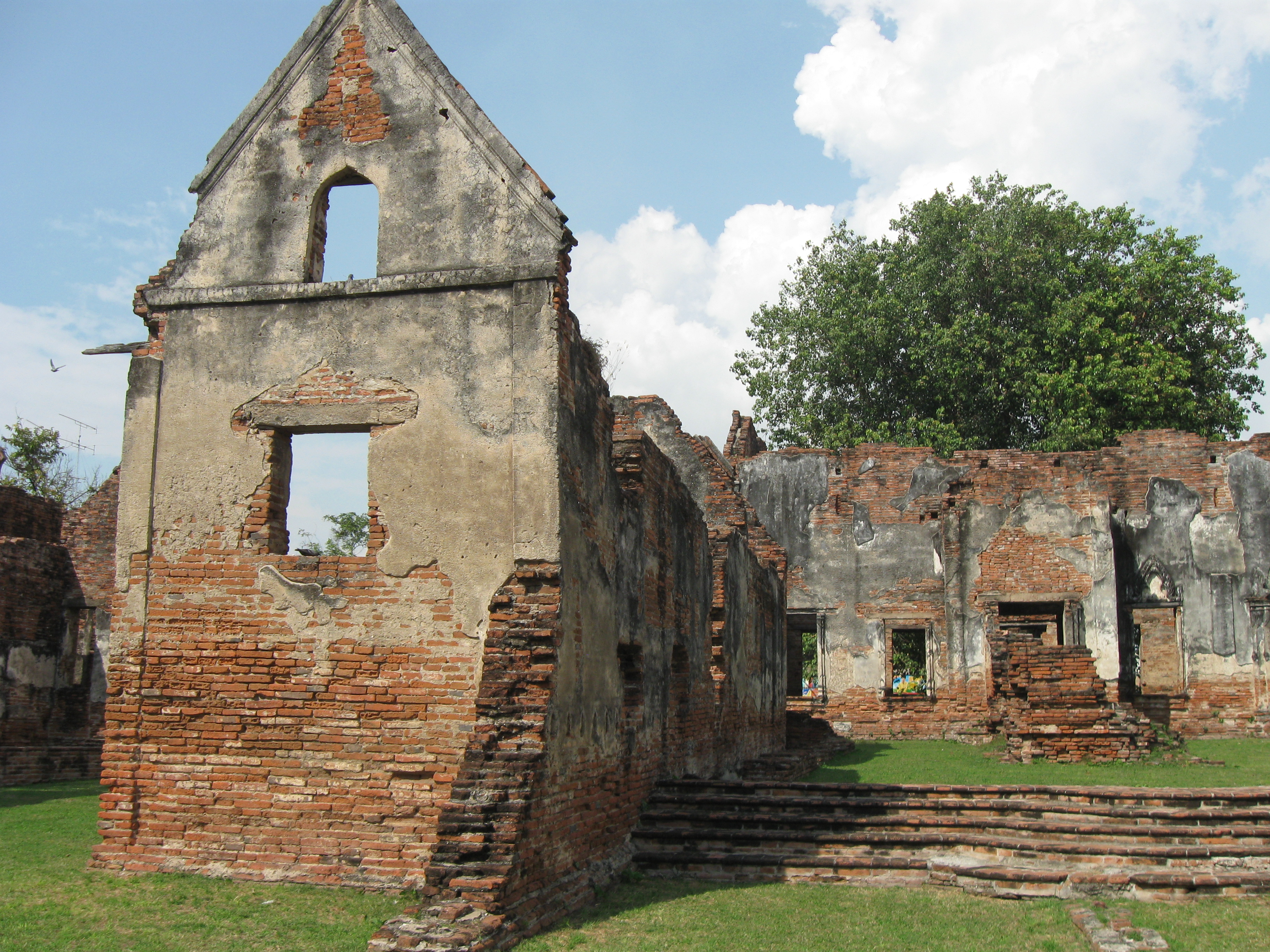 Wichayen House (Ambassador House) in Lop Buri, Thailand